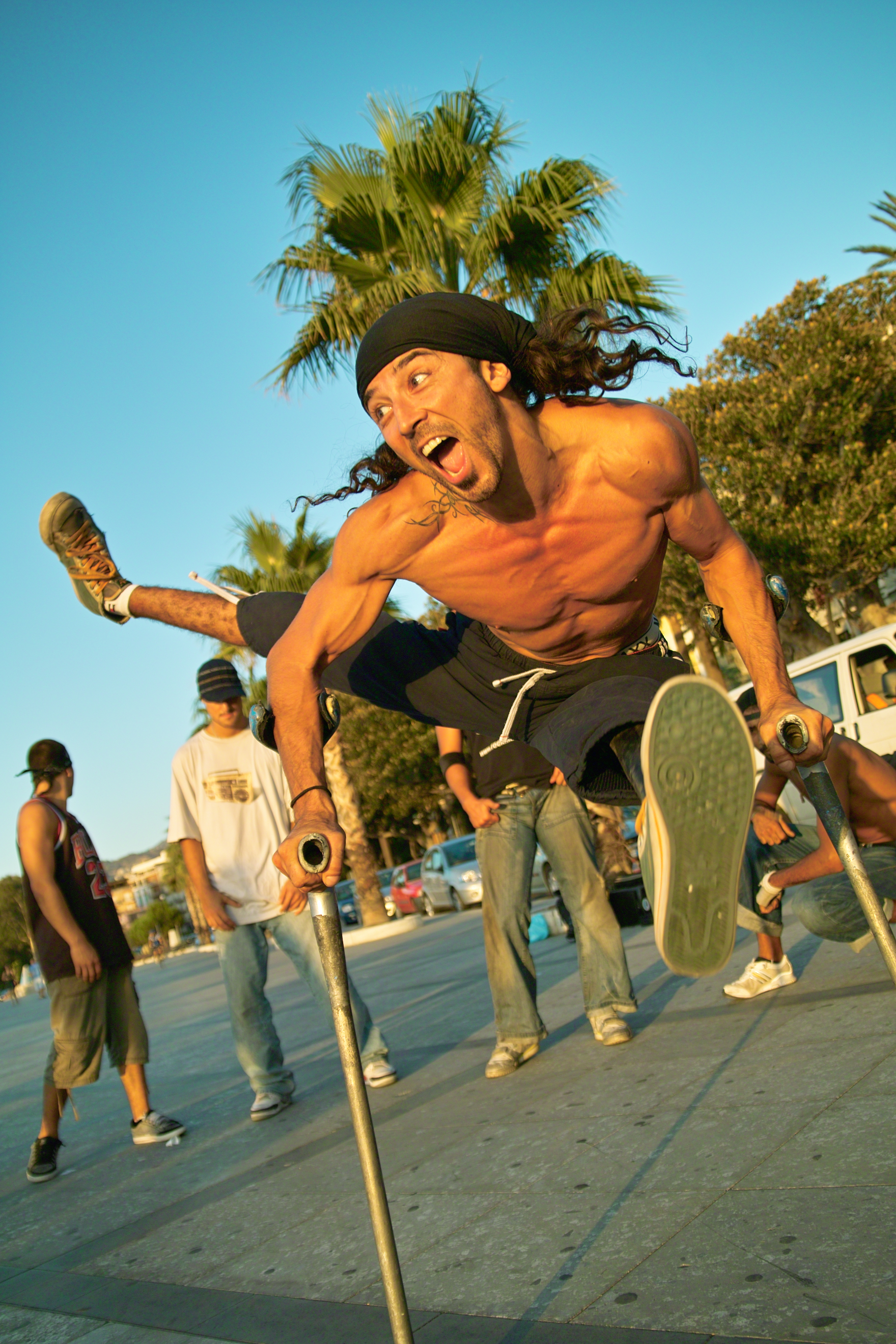 Dergin Tokmak